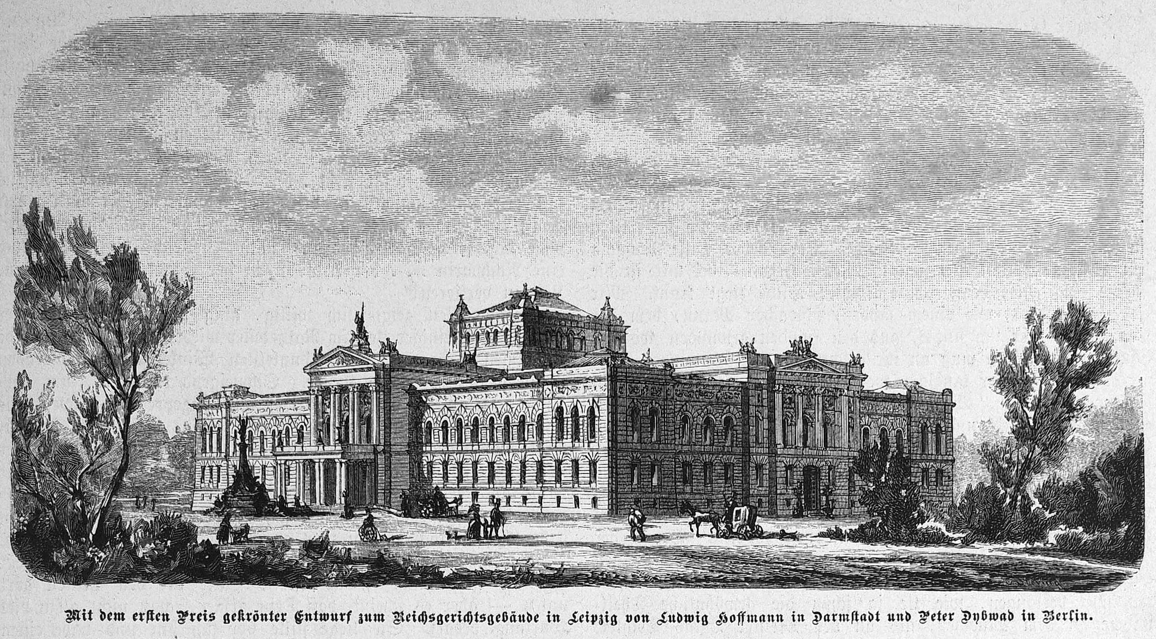 caption: "Mit dem ersten Preis gekrönter Entwurf zum Reichsgerichtsgebäude in Leipzig von Ludwig Hoffmann in Darmstadt und Peter Dybwad in Berlin."